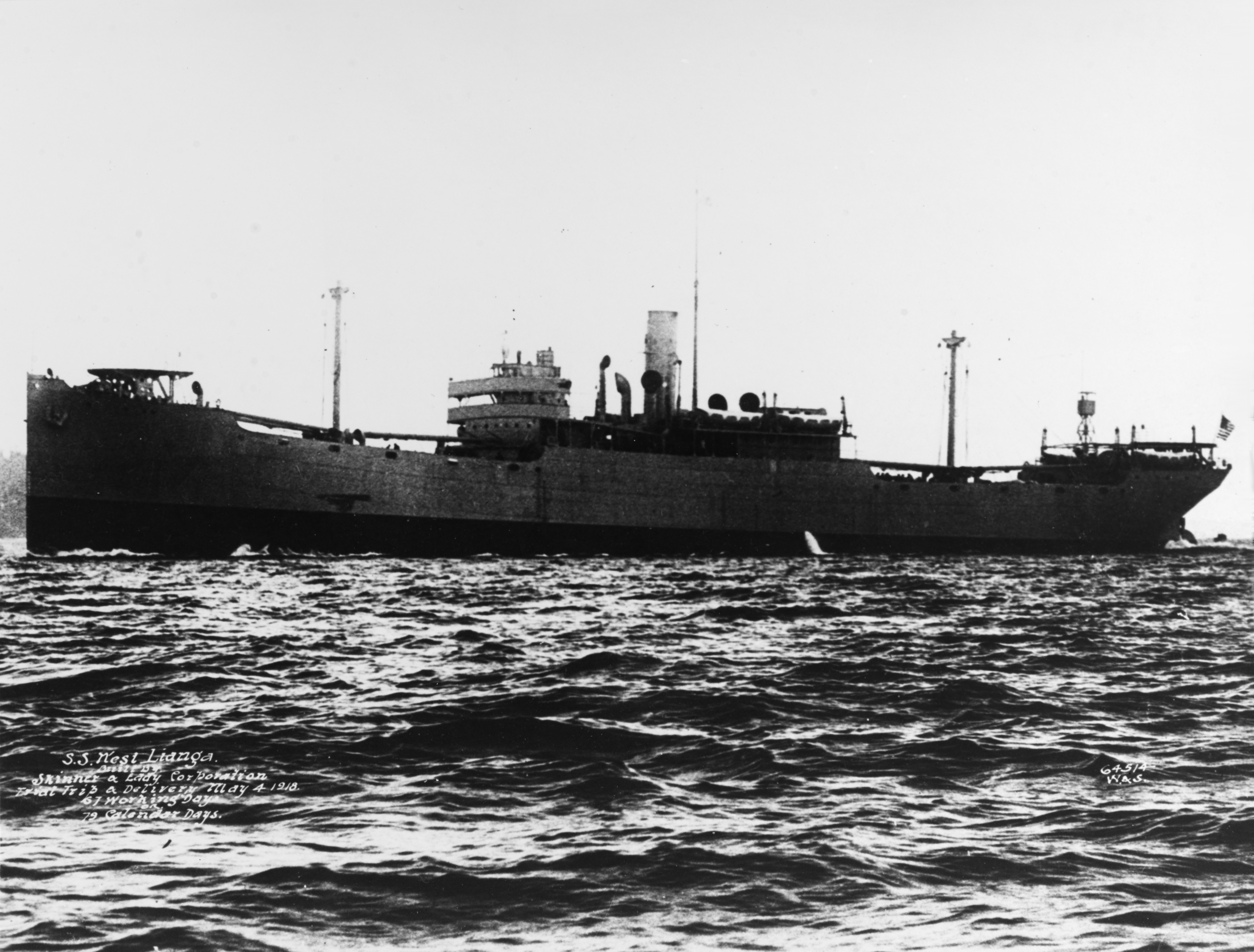 West Lianga (American Freighter, 1918) Underway off Seattle, Washington, on 4 May 1918, the day of her trial trip and delivery. Built by the Skinner & Eddy Corporation, Seattle, she had been constructed in 67 working days (79 calendar days). This ship was acquired by the Navy on 19 August 1918 and placed in commission the next day as USS West Lianga (ID # 2758). She was returned to the U.S. Shipping Board on 24 June 1919. The original print is in National Archives' Record Group 19-LCM. U.S. Naval Historical Center Photograph.